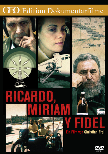 Movie poster of the feature length documentary Ricardo, Miriam y Fidel (1997) of Swiss director Christian Frei (artwork).